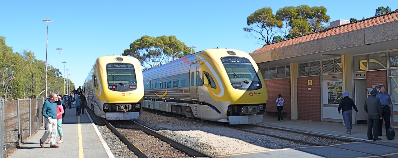 Up and Down Prospector services at Merredin, Western Australia, 30 04 2014